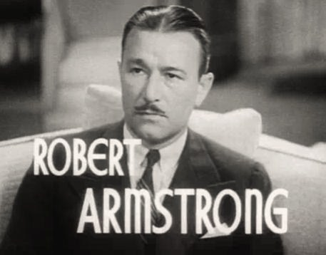 Cropped screenshot of Robert Armstrong from the film The Ex-Mrs. Bradford